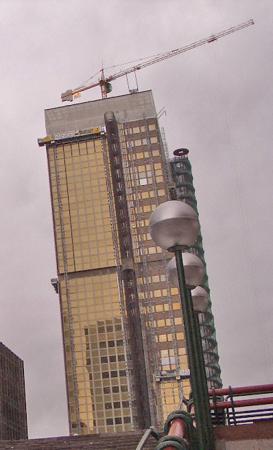 Azca zone and windsor building before burning itself in Madrid ( Spain )